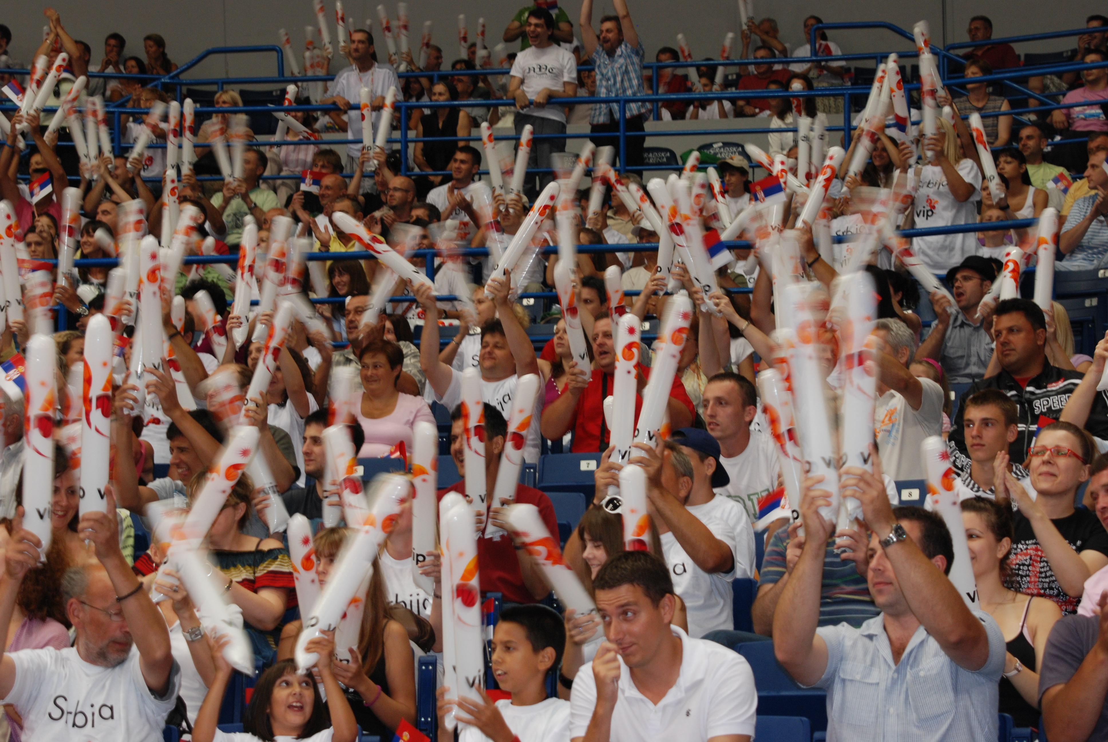 Serbia defeated Cuba 3-1 (18-25, 25-13, 25-21, 27-25) in the second 2009 World League semifinal on Saturday to book their place in Sunday's final against Brazil. The young Cuban team somewhat unexpectedly took the first set by a significant 7 points. Serbia bounced back to beat the Cubans 25-13 in the second frame and never looked back. Serbia, buoyed by a great home crowd at Belgrade Arena, was the better team and deserved the victory.